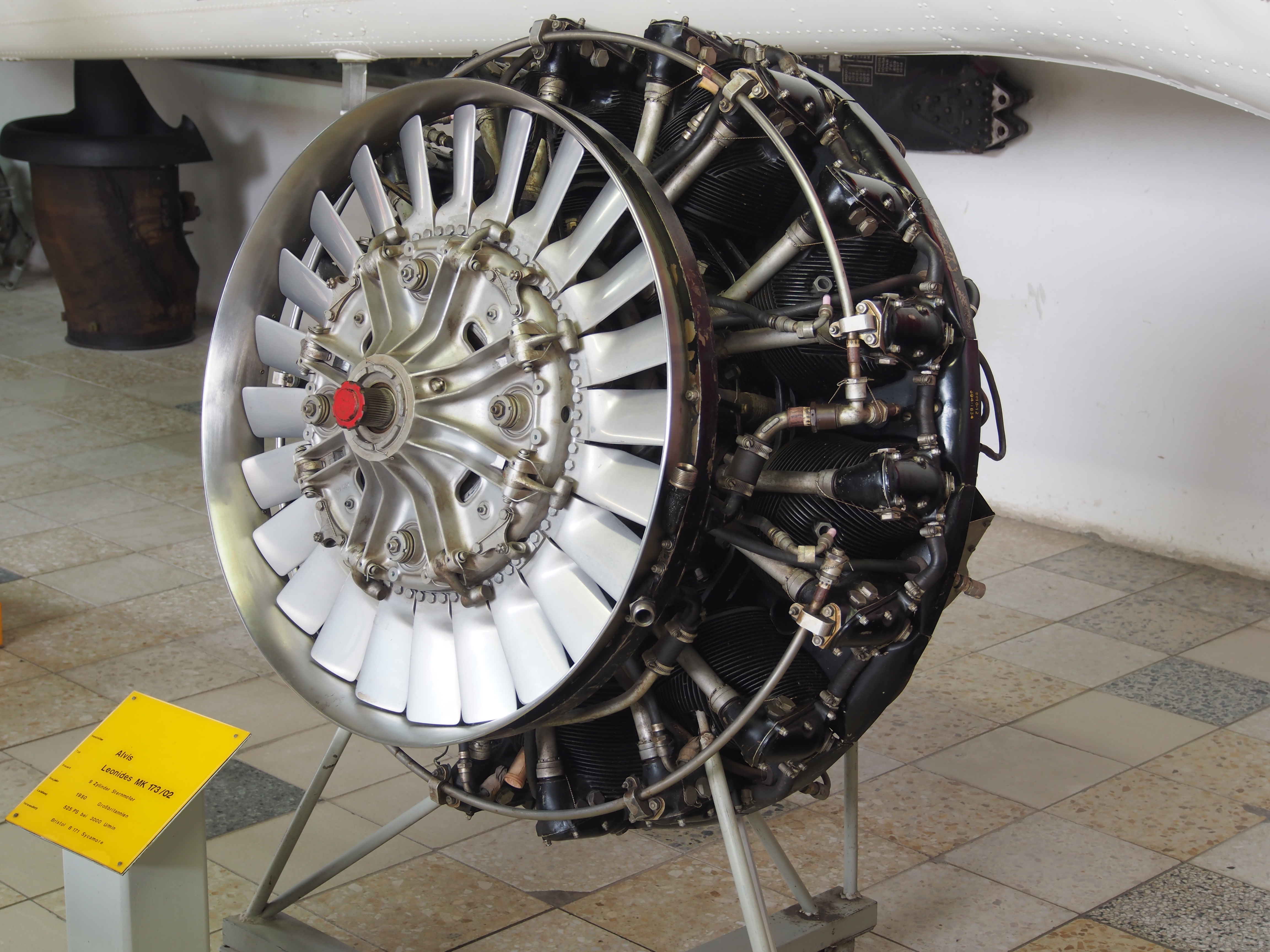 Photographed at Flugausstellung L.+P. Junior, Hermeskeil, Germany.